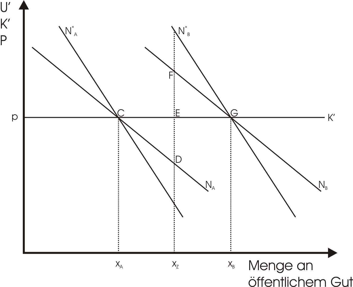 Decentralisation-Theorem part I.